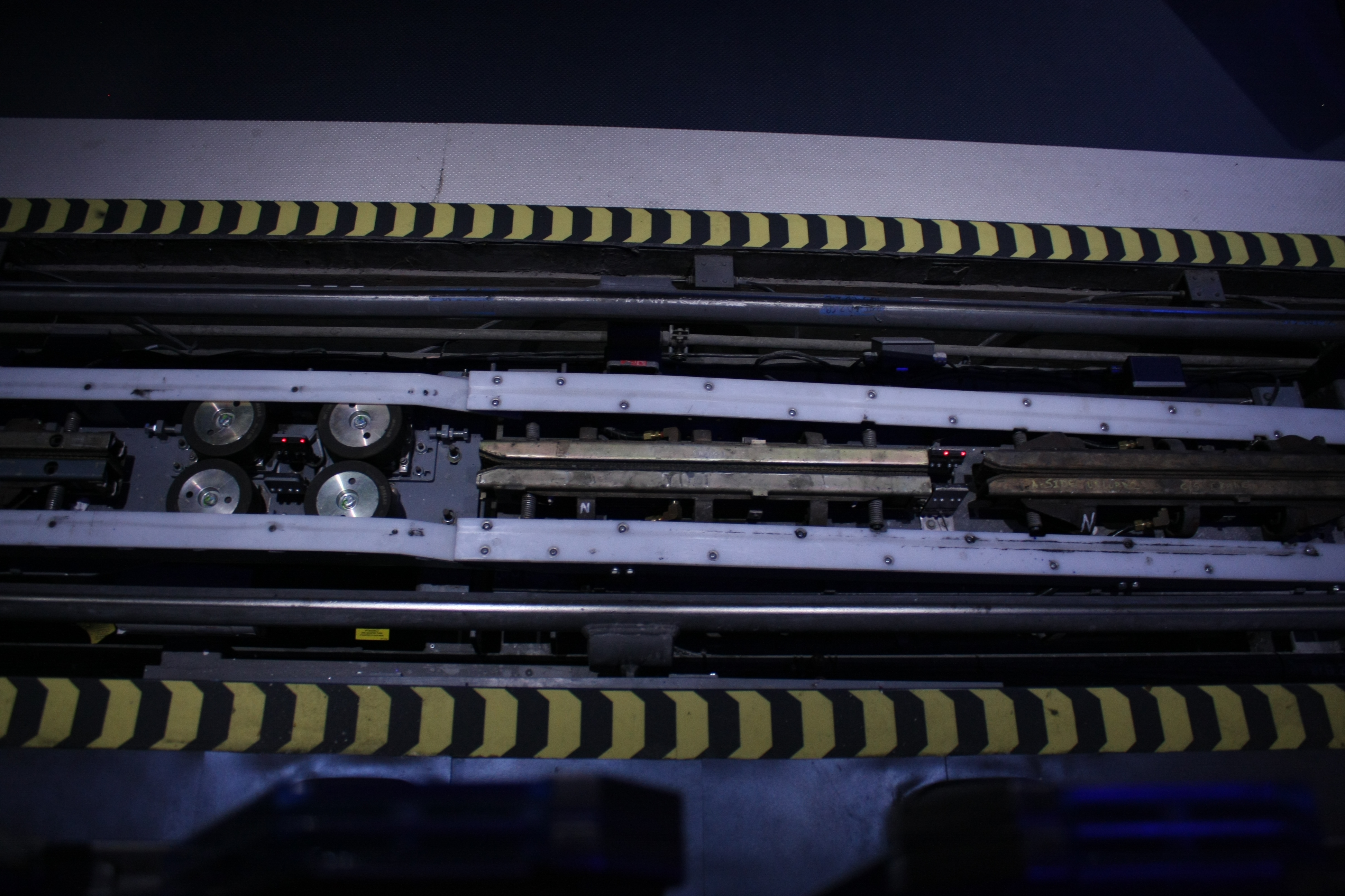 Space Mountain roller coaster at Walt Disney World Magic Kingdom Station track after 2009 refurbishment